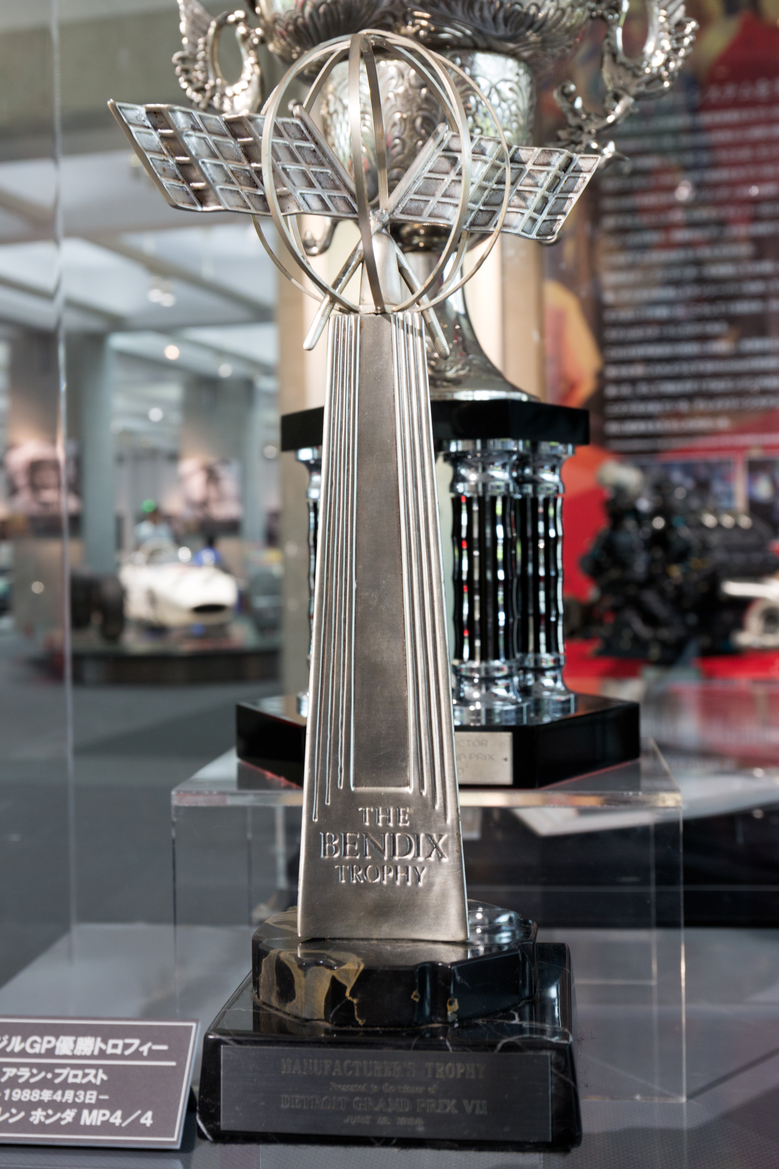 1988 Detroit Grand Prix winning constructor's trophy (for McLaren)